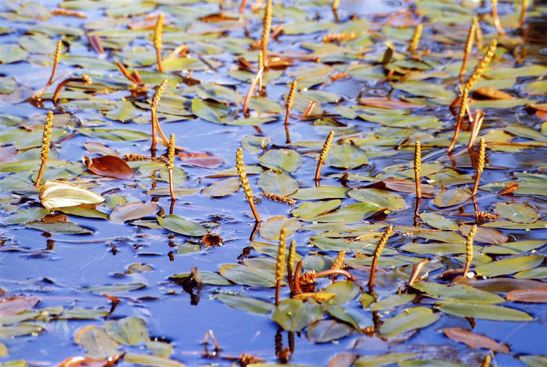 Flowering Floating Pondweed, Potamogeton natans, on the surface of a pond.